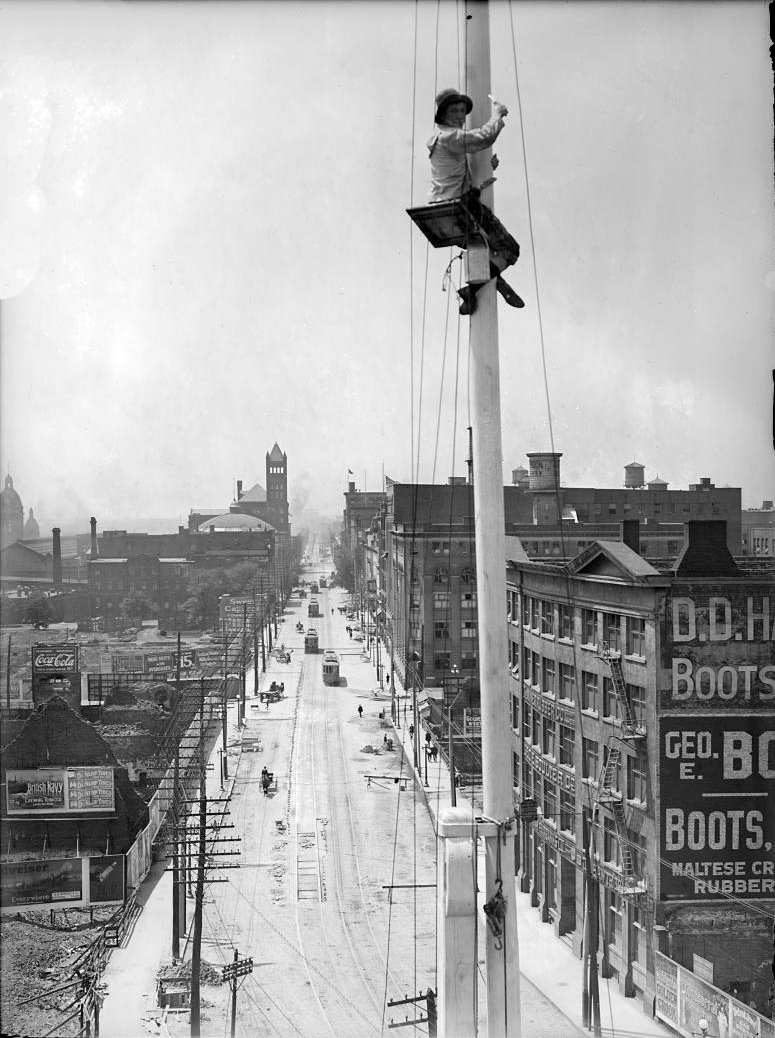 View of flagpole painter, at old Customs House, looking west along Front Street West from Yonge Street. The future site of new Union Station is on the left, with the (then) Union Station visible in the distance. Toronto, Canada.